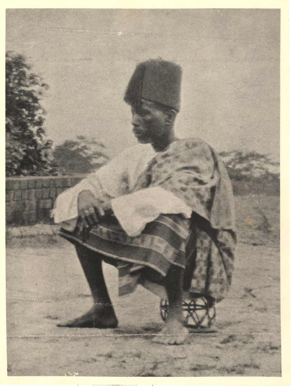 1932. Nyasaland Chief Kanyenda sitting on his hereditary stool